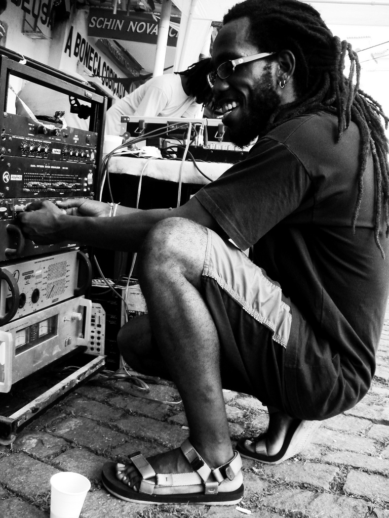 Man with dreadlocks near the Sound System